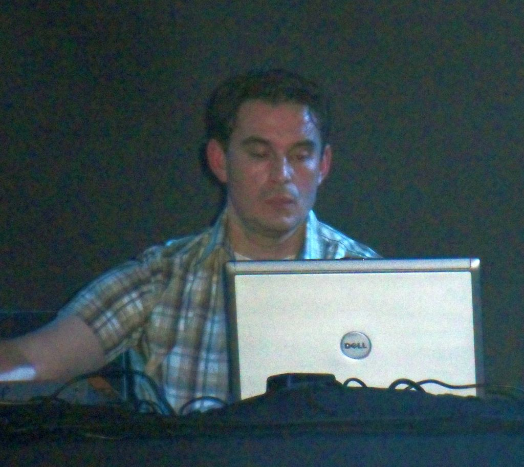 Markus Popp at Astra Kulturhaus, Berlin [1]